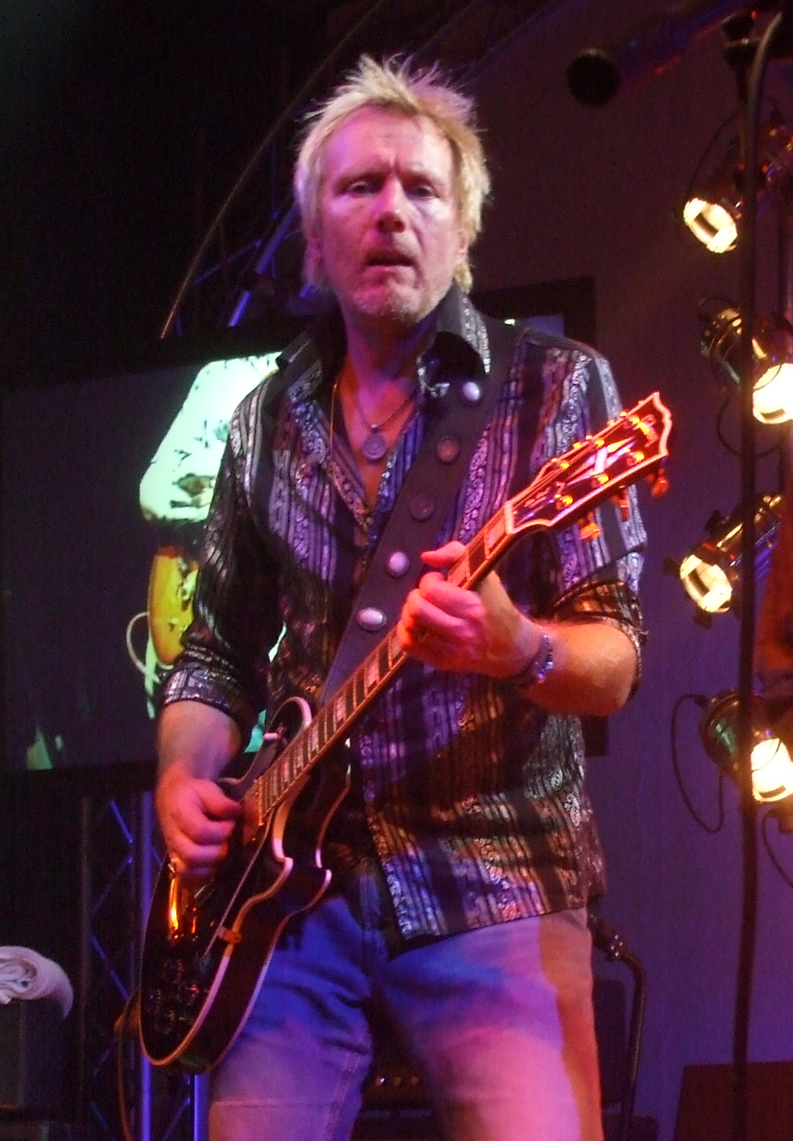 Muddy Manninen on stage with Wishbone Ash, 09-01-30 Capitol Paderborn Germany